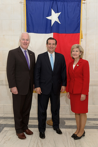 U.S. Senator John Cornyn, Senator-elect Ted Cruz, and U.S. Senator Kay Bailey Hutchison